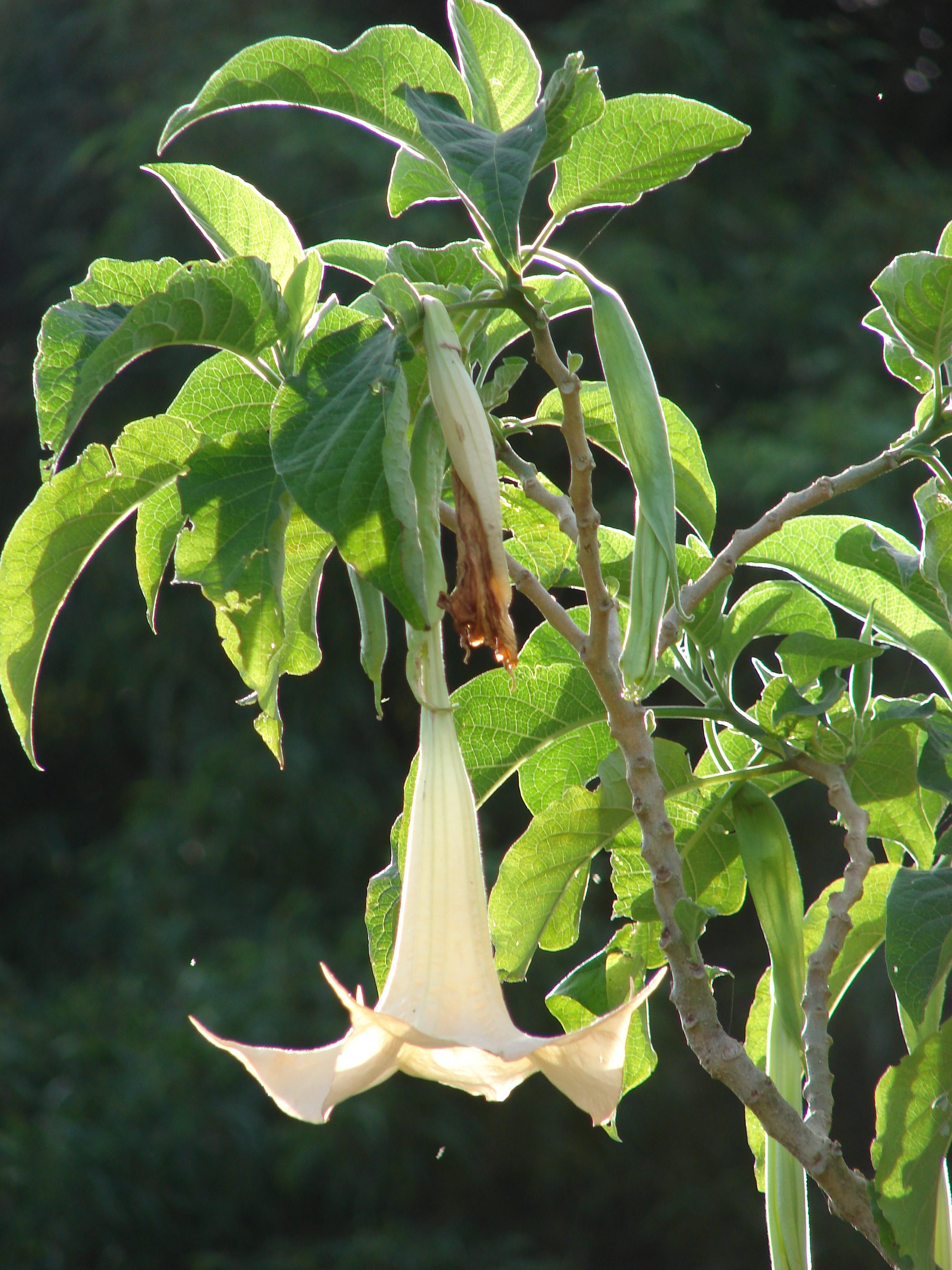 Brugmansia x candida (flower and leaves). Location: Maui, Olinda